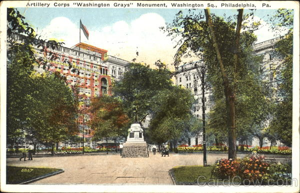 Washington Gray Monument, Washington Square Philadelphia By John Wilson